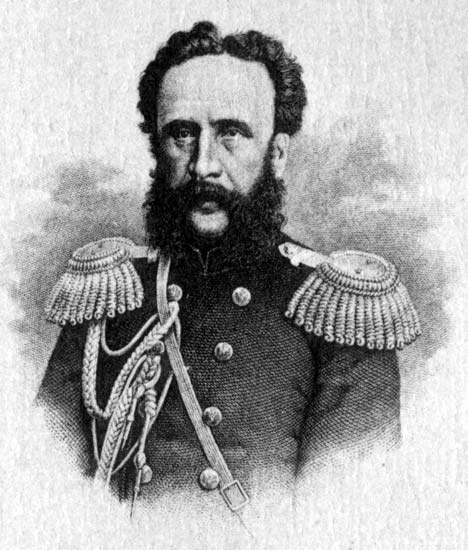 Engraving by Ivan Pozhalostin, a portrait of Peter Uslar, Russian linguist.